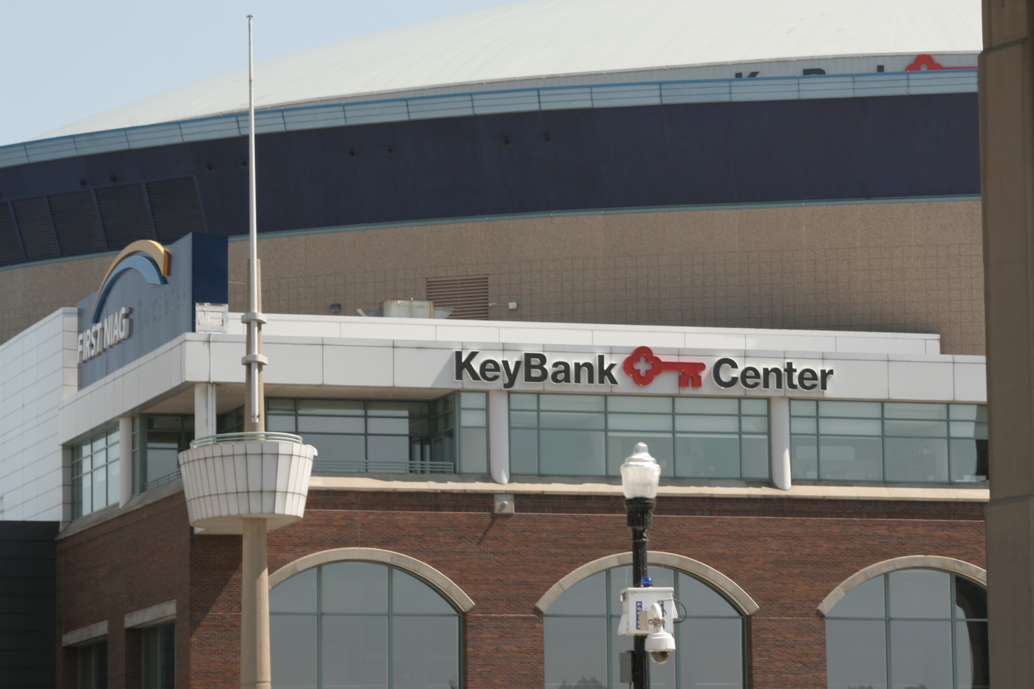 KeyBank center, Buffalo, NY